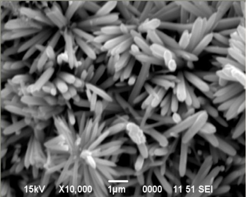 SEM image of ZnO multipods